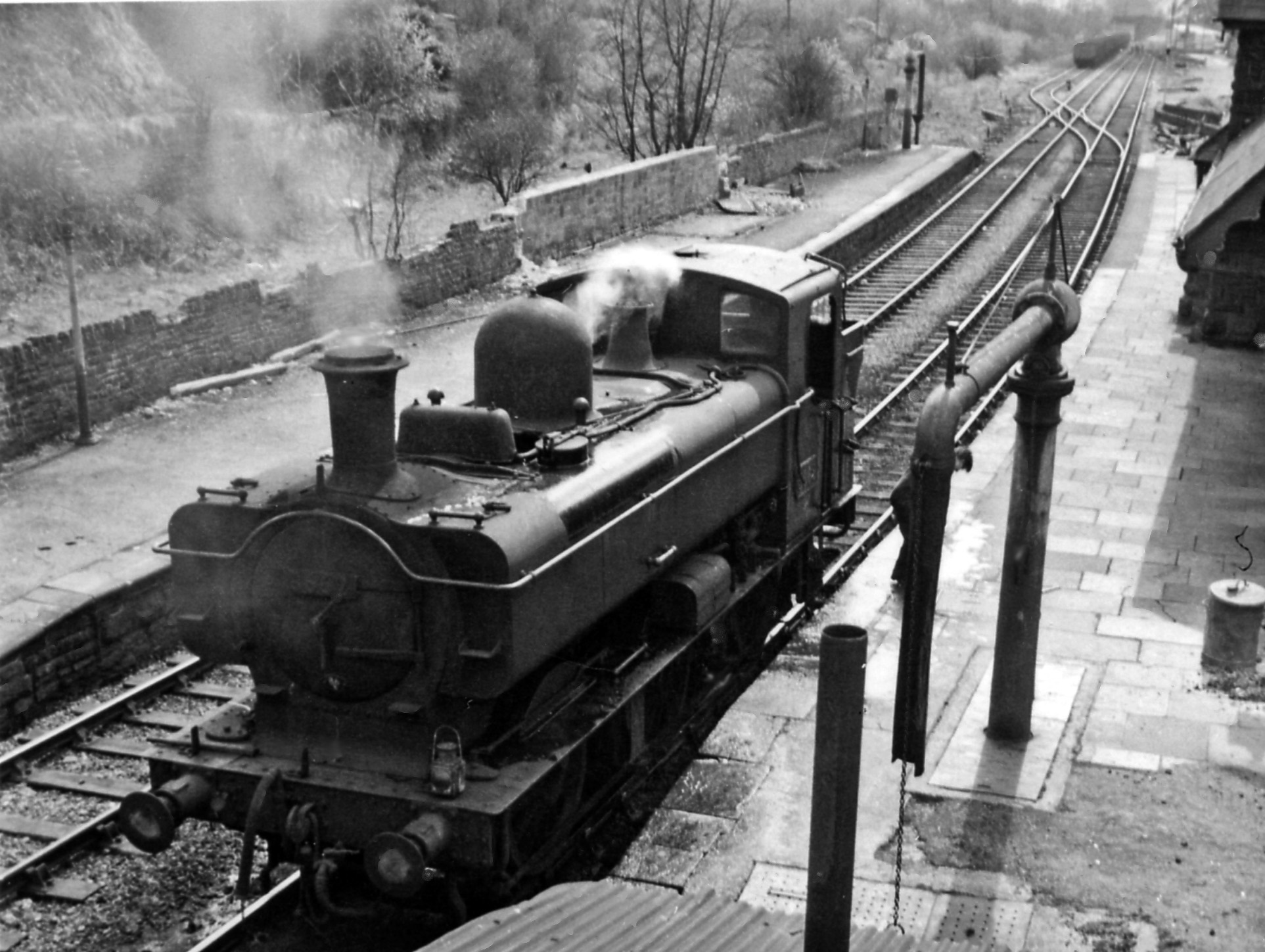 Closed Station at Pengam (Mon.), with a Standard GW Pannier 0-6-0T. View southwards, towards Maes-y-Cwmmer and Newport: ex-Brecon & Merthyr, later GWR, Newport - Brecon line. The station, together with the passenger service had been closed on 31/12/62, but the line remained open for a few more years for goods. (Pengam (Glam.) station, across the Rhymney River to the west, remains open on the Rhymney Railway line).